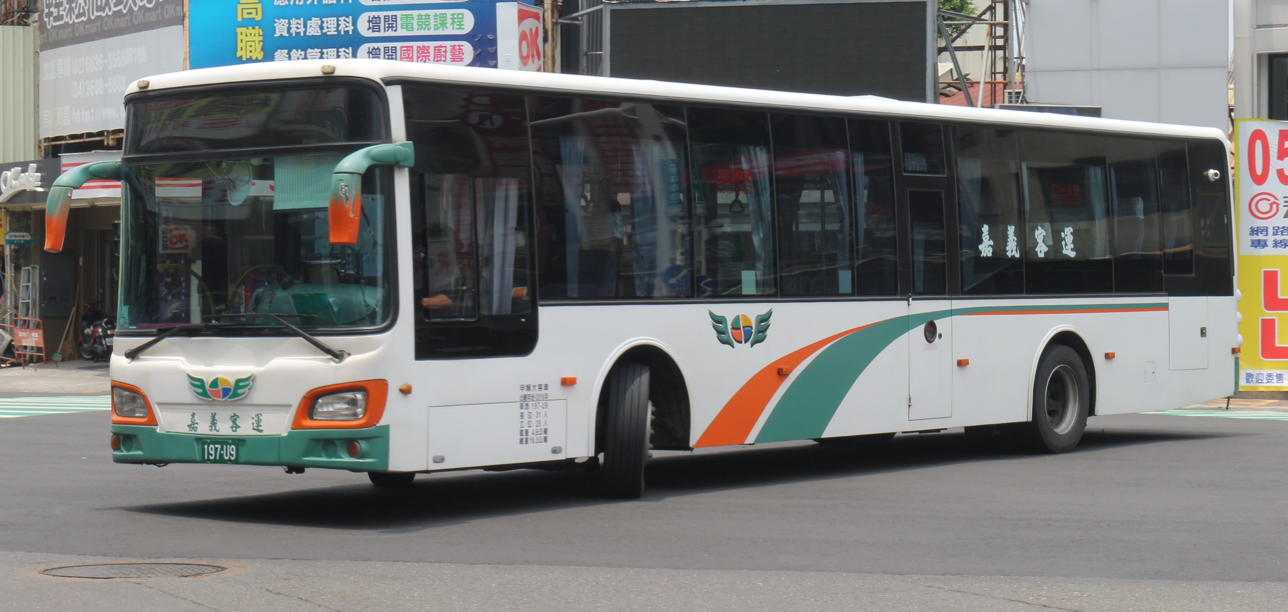 2016 HINO HS8JRVL-UTF